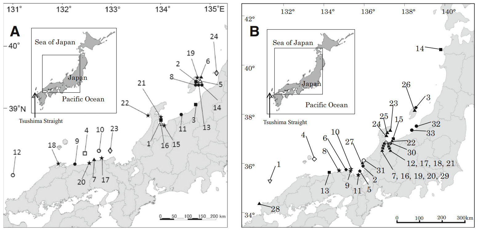 "Fig. 1 Positions at which giant squid were found during January–May 2014 (a) and September 2014–March 2015 (b). The numbers correspond to the ID numbers in Table 1. a ■: January 2014, ▲: February 2014, ●: March 2014, ★: April 2014, ◆: May 2014. b ▼: September 2014, ✚: October 2014, ◆: November 2014, ★: December 2014, ■: January 2015, ▲: February 2015, ●: March 2015. The solid symbols indicate individuals stranded on beaches, drifting at the surface, and/or found in fixed nets, while the open symbols indicate individuals caught by bottom trawl nets or bottom gillnets".